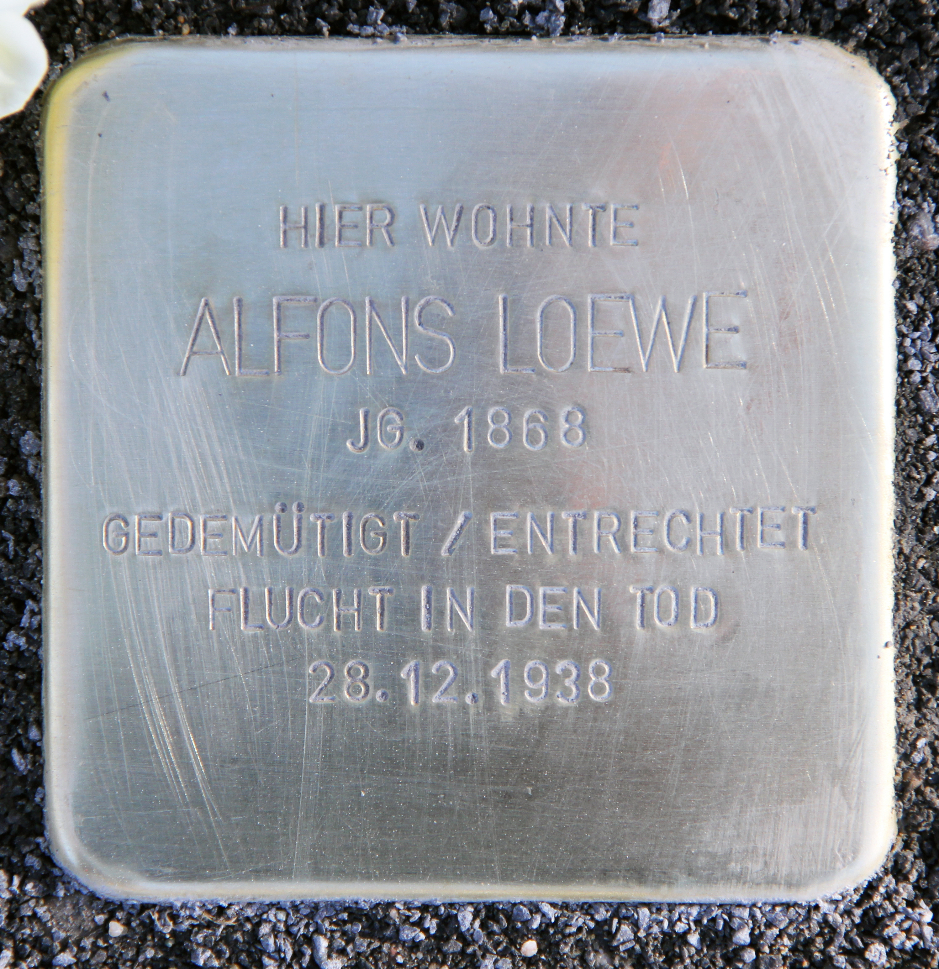 "Stolperstein" (stumbling block), Alfons Loewe, Fürstenweg 2, Berlin-Hakenfelde, Germany